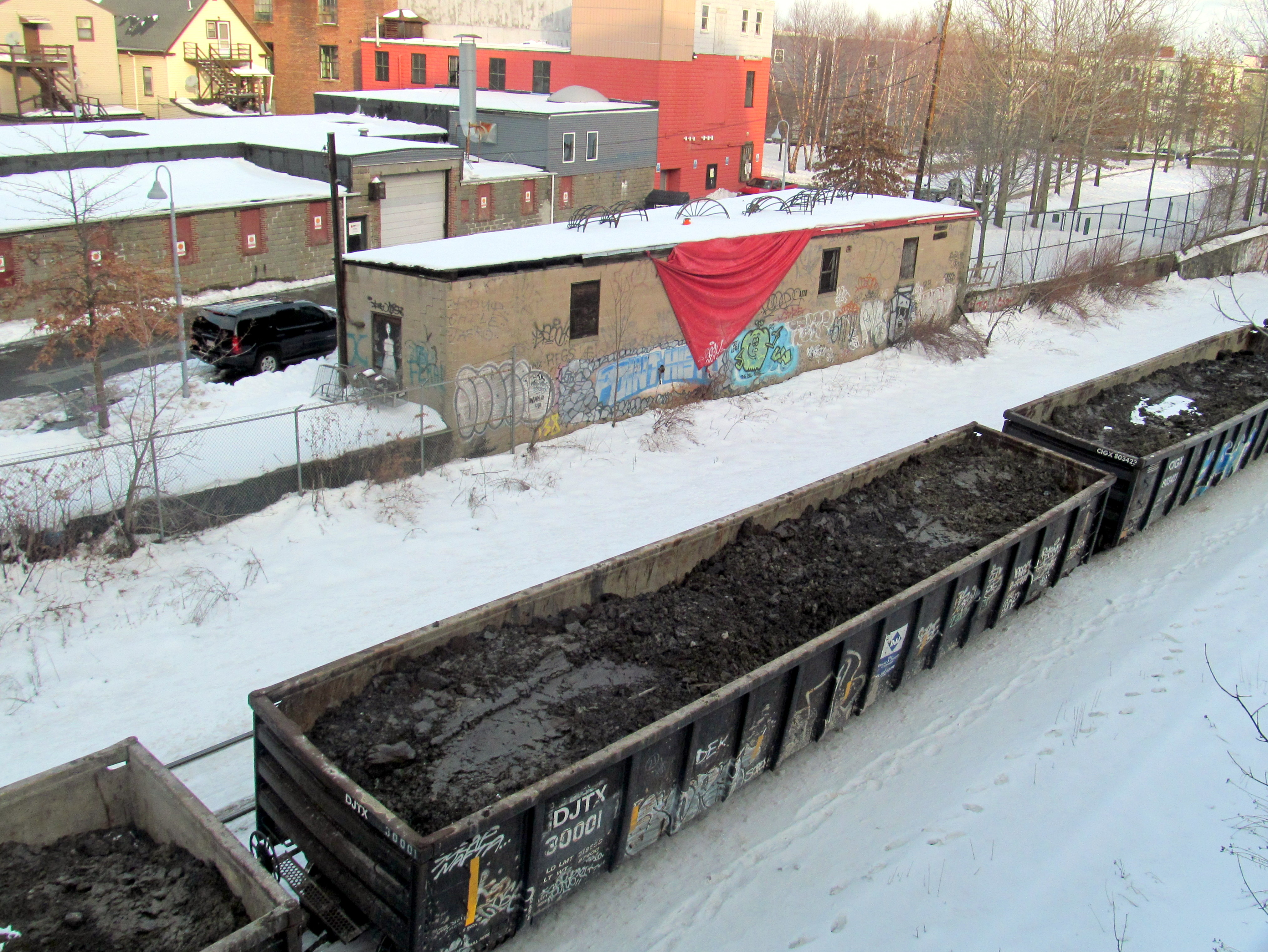 "Dirty dirt" train carrying contaminated soil - dug up during the construction of the Wynn Boston Harbor casino and being transported elsewhere for disposal - in February 2017